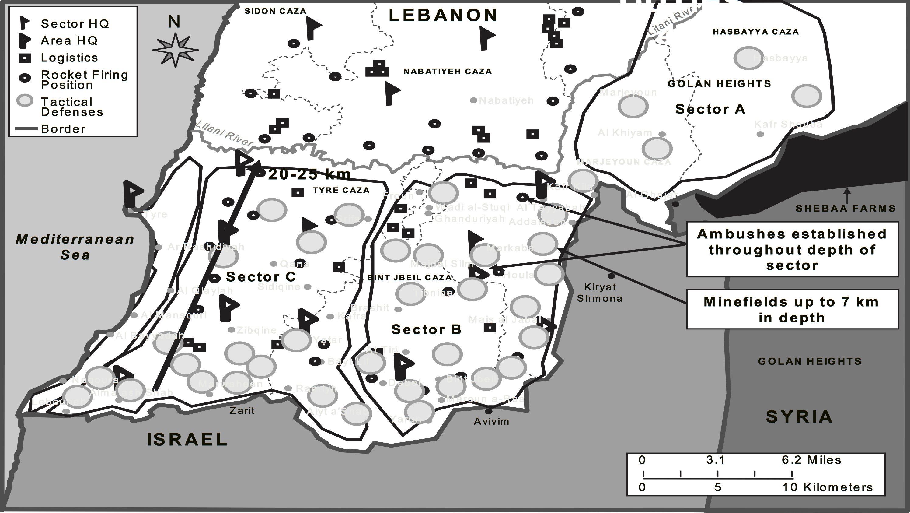 Map of Hezbollah defensive system in southern Lebanon on July 2006.